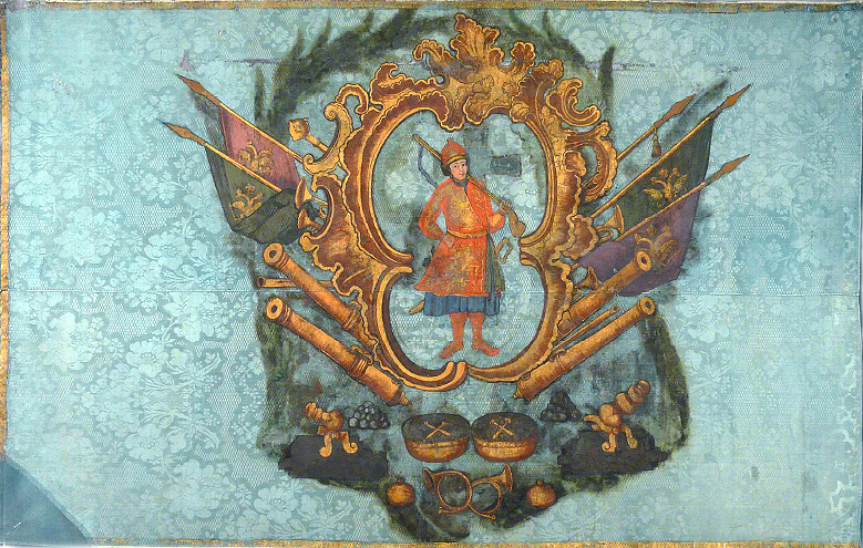 Flag of the Senchenksyi Sotnia of the Lubny Regiment, Ukraine.